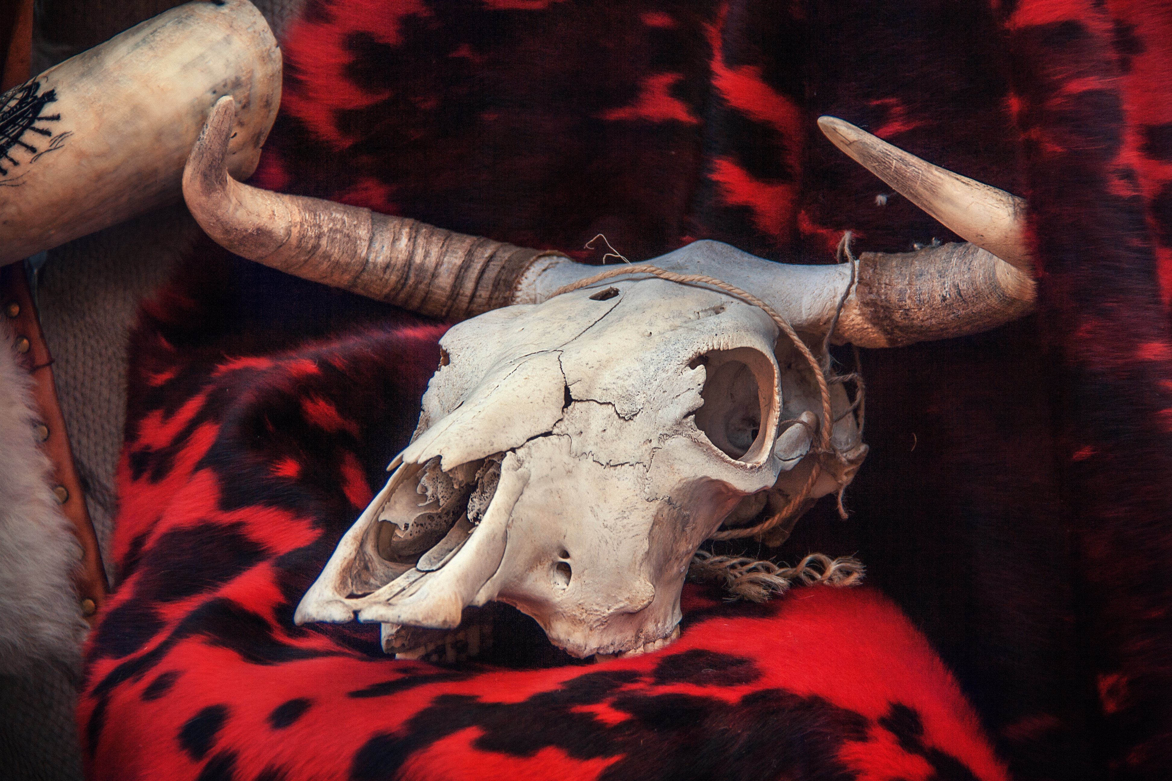 A Bull skull in the photographic studio from Zaragoza, Spain